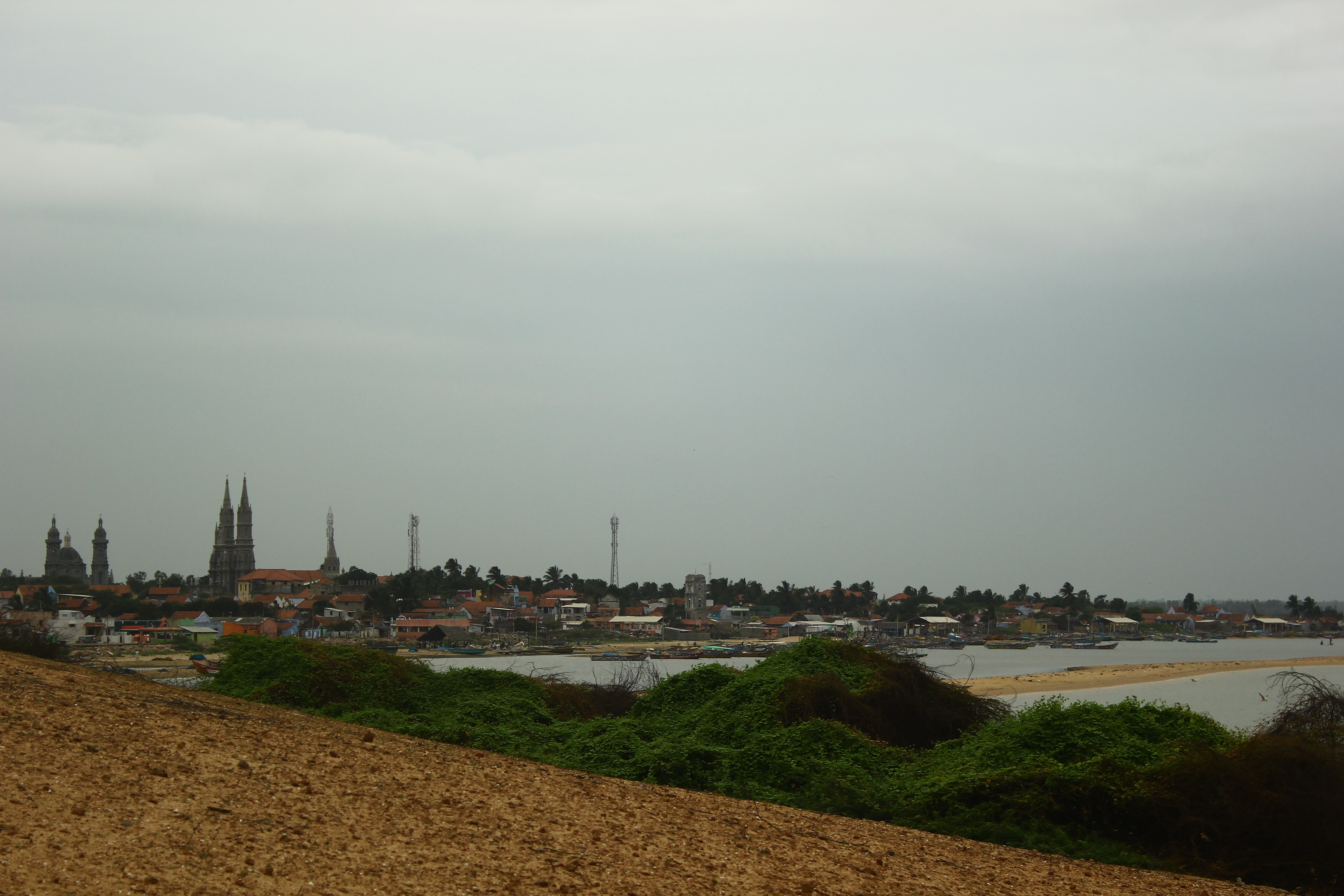 Manapad or Manavai is a historical place for Catholic mission, TamilNadu.